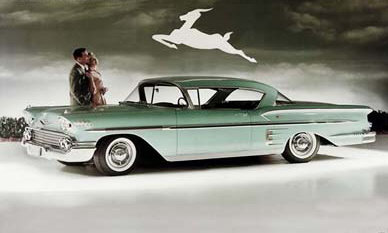 1958 Chevrolet Bel Air Impala